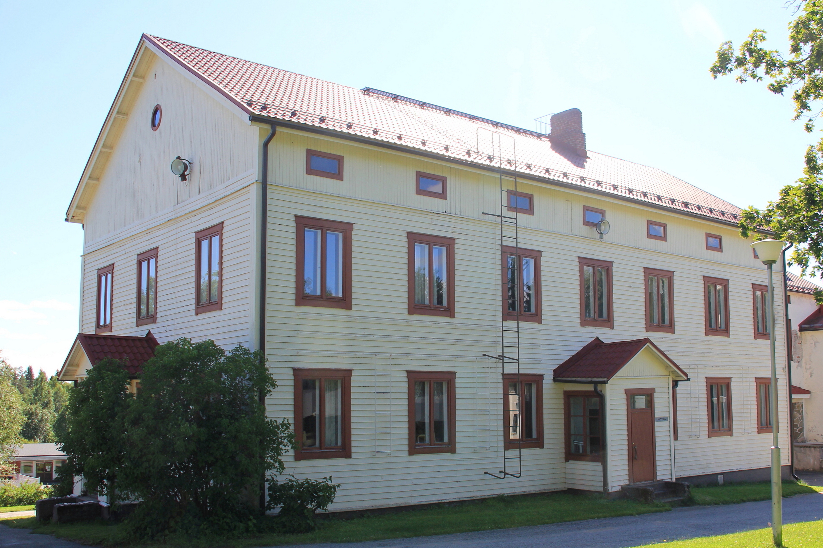 Paltamon Opisto building "Anttila", Mieslahti, Paltamo, Finland.